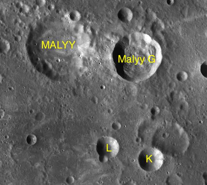 Part of the chart LAC-46 used for the presentation